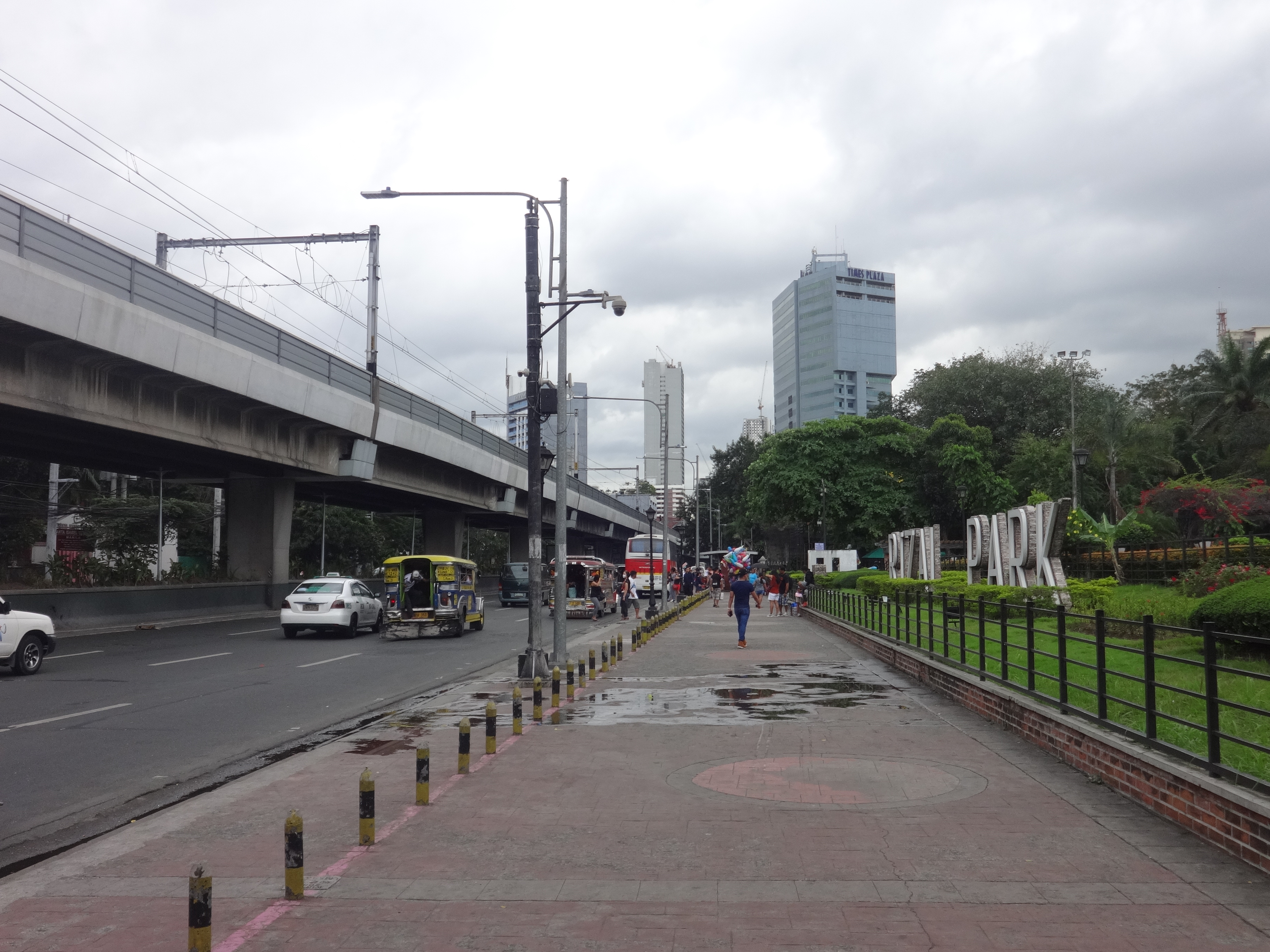 Taft Avenue in Ermita, Manila